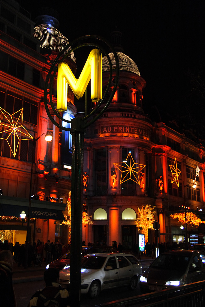 Surroundings of Havre Caumartin metro station, Paris.